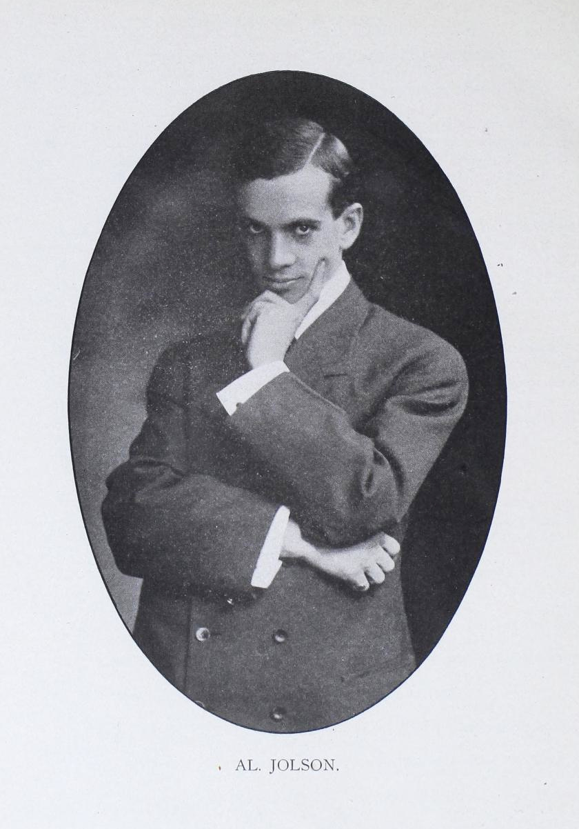 Al Jolson, American singer, comedian, and actor.